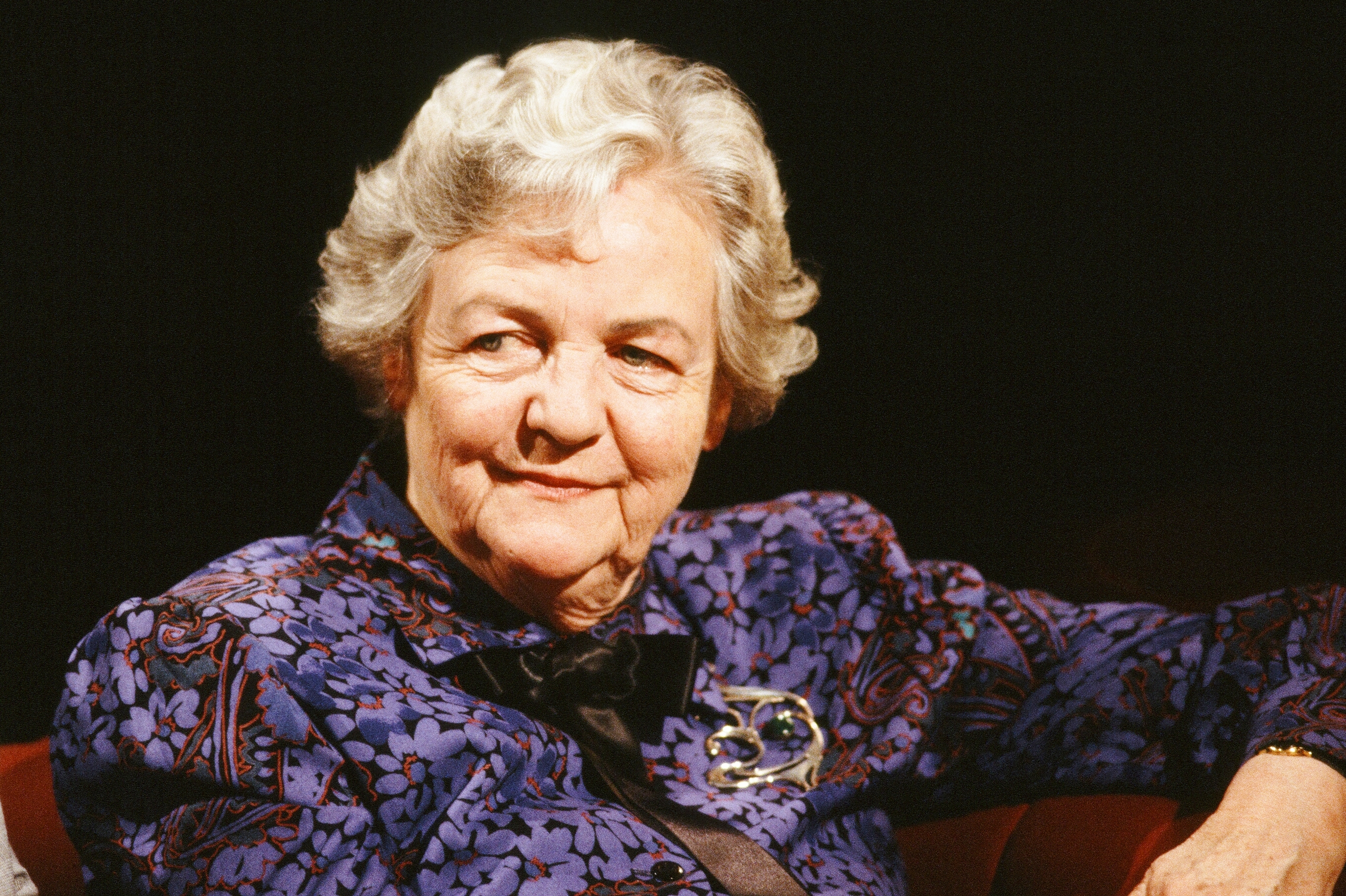 Jessica Mitford appearing on After Dark on 20 August 1988. Other guests included John Rentoul and Eva Figes.